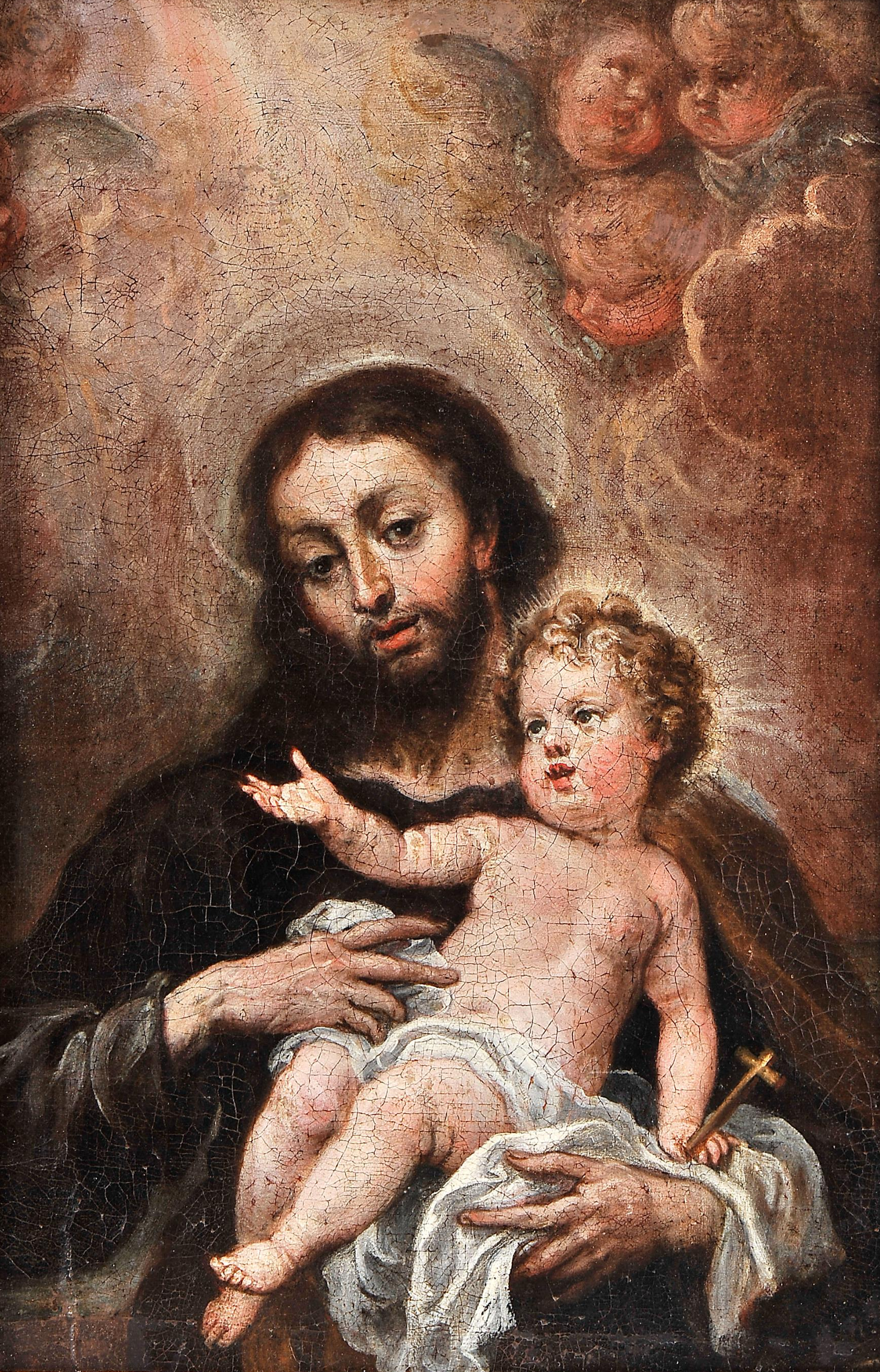 Saint Joseph with the Baby Jesus, 18th-century Italian school.